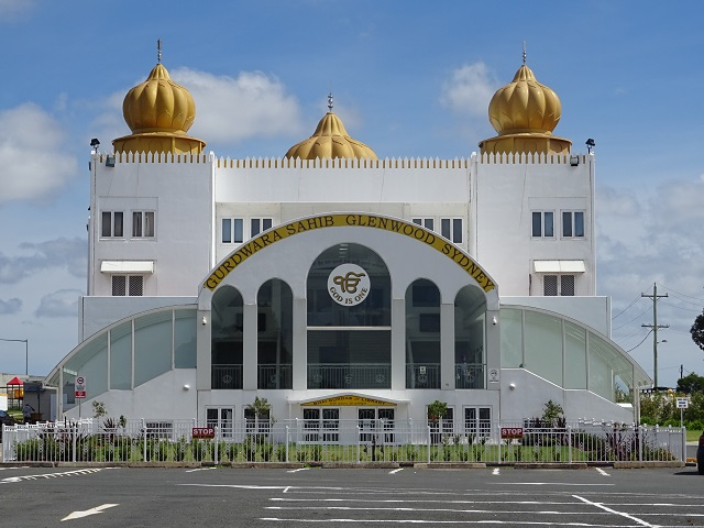 Gurdwara Sahib Sikh temple in Glenwood